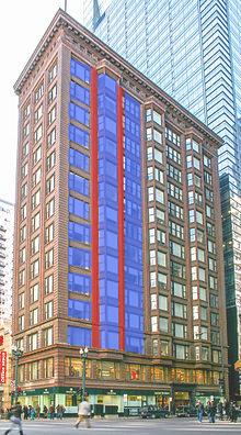 windows rhythm and facade verticality